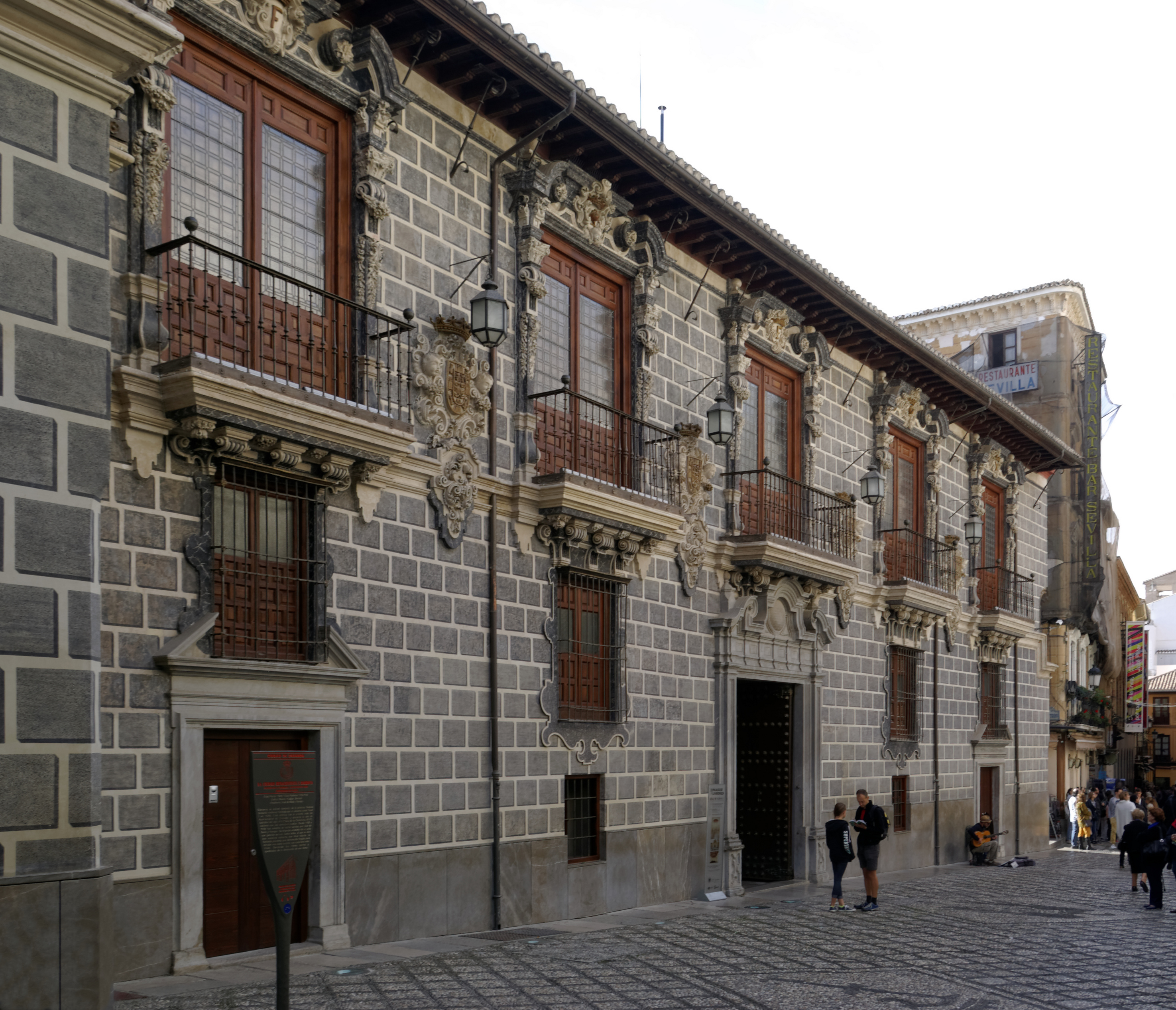 Spain, Granada, Palacio de la Madraza